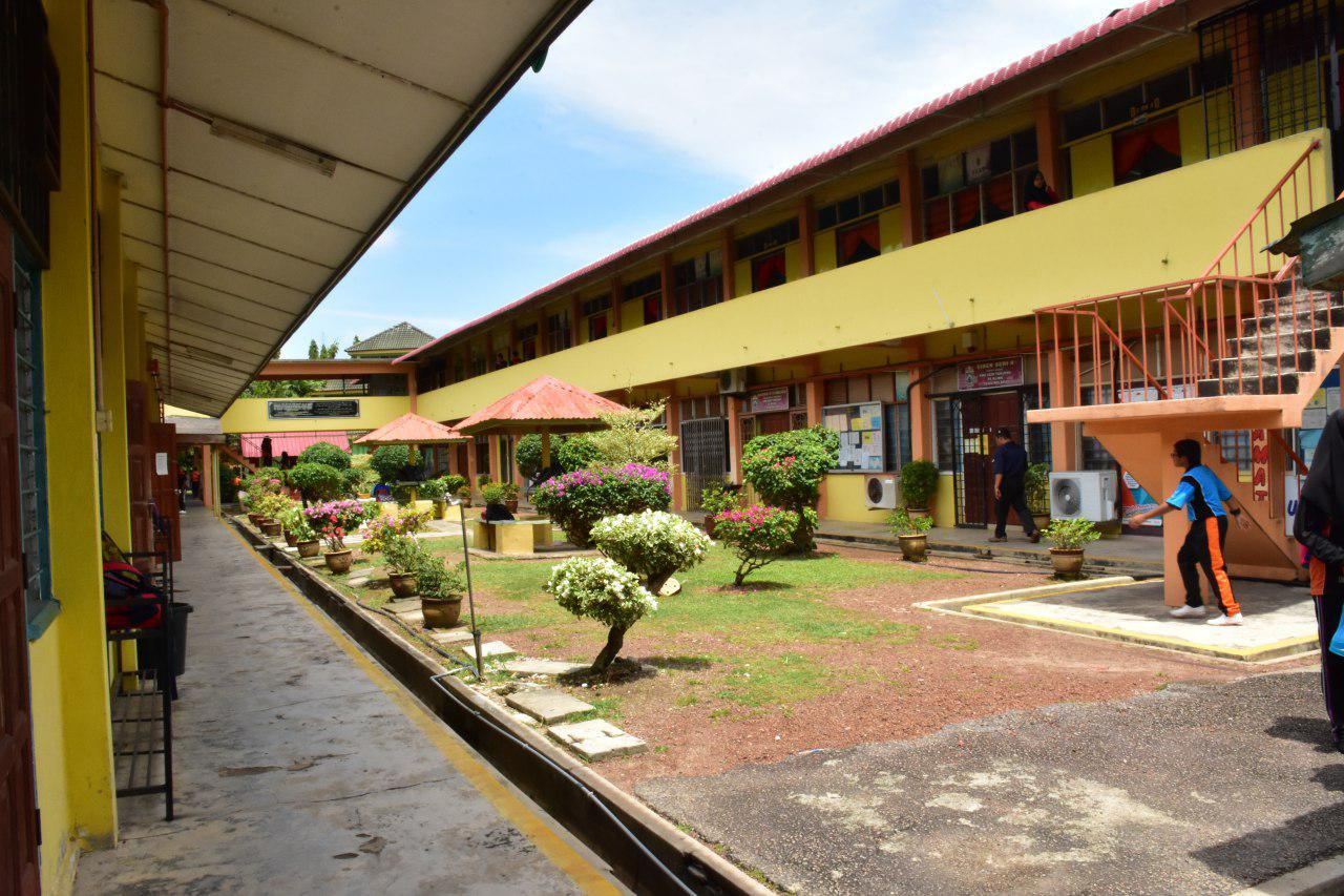 Blok Kelas